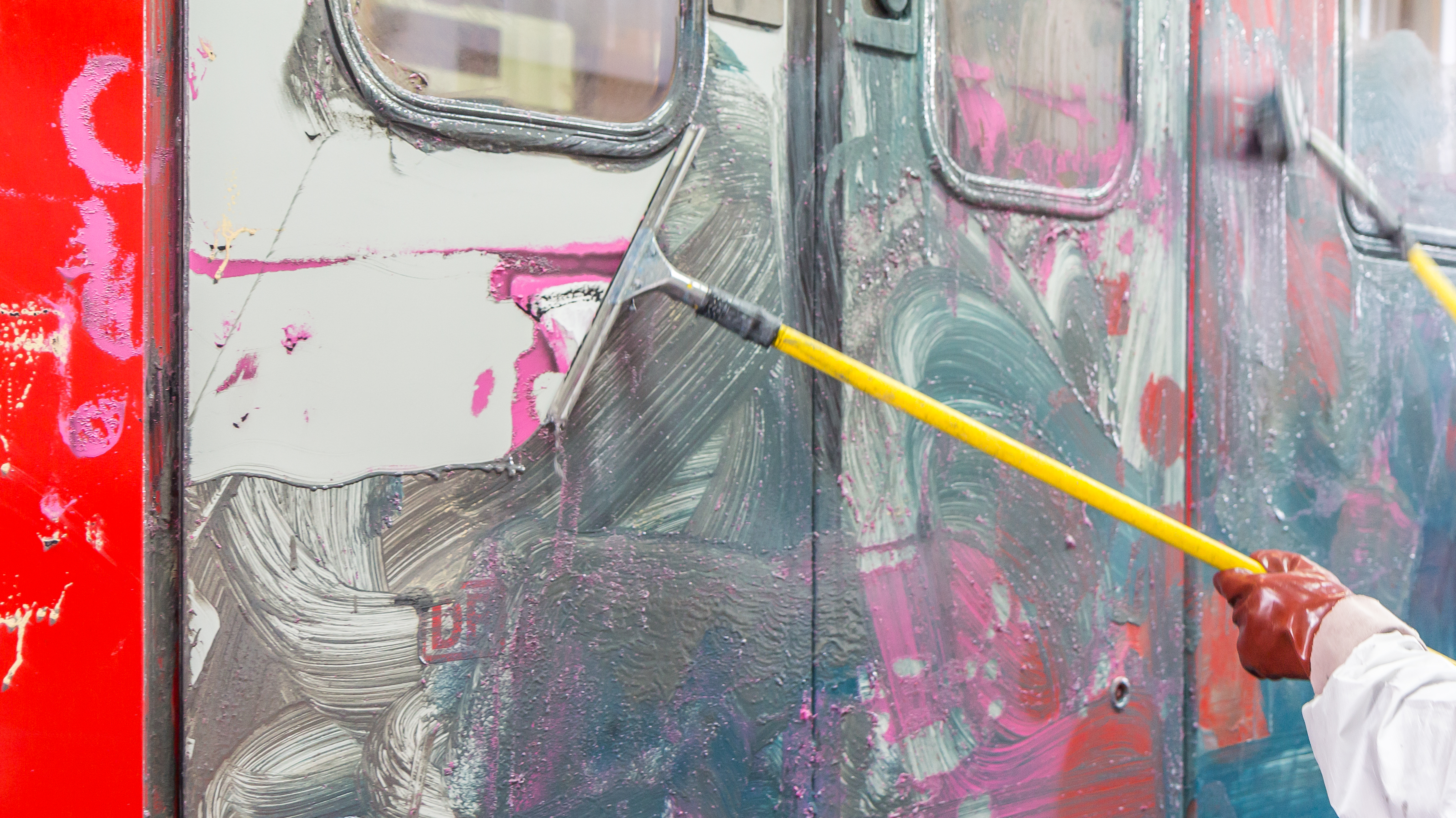 Removal of graffiti from a train in a new service building of Deutsche Bahn in Cologne. Here: Removal of the paint with a squeegee after it was dissolved by a gel.